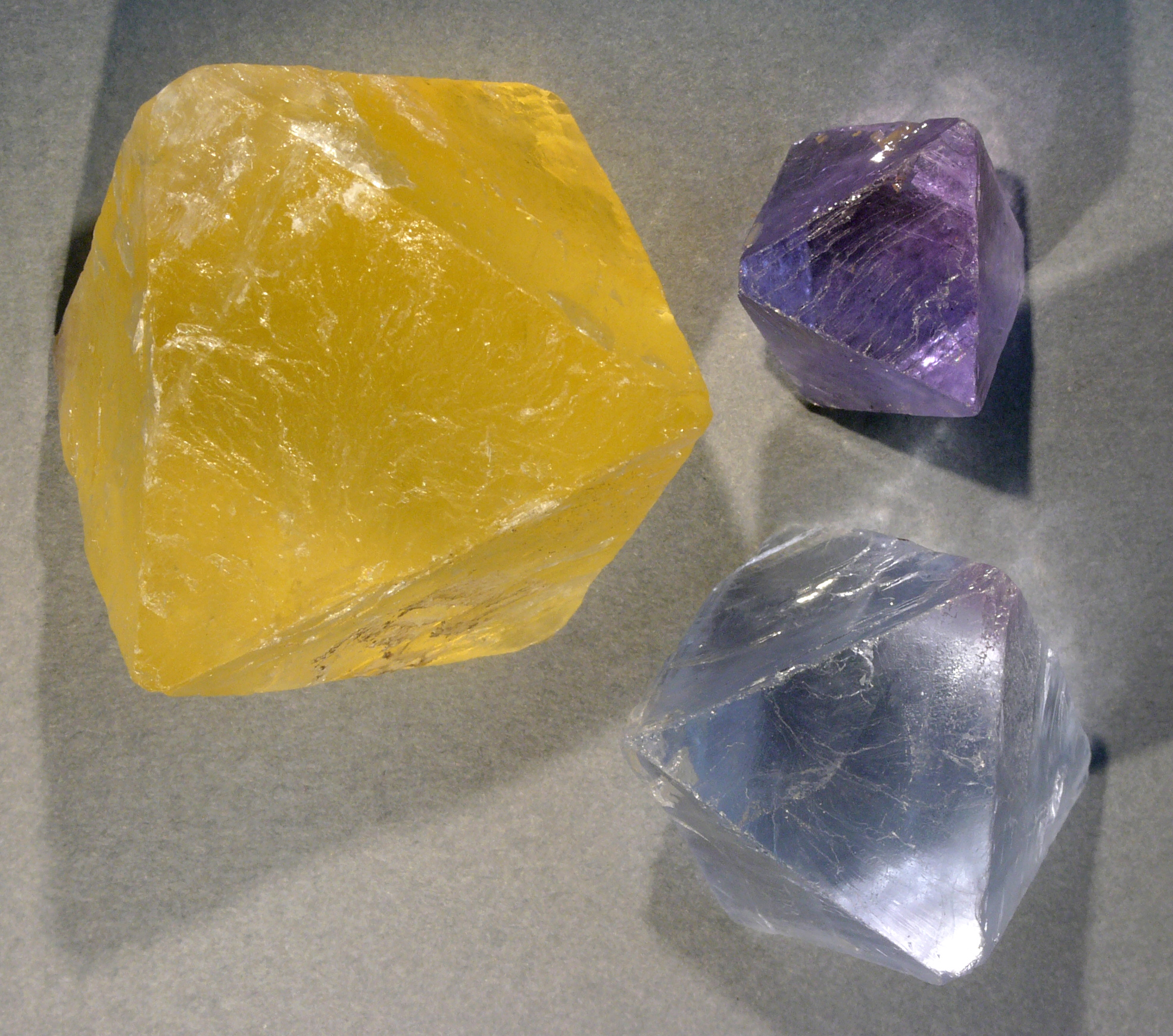 to be done